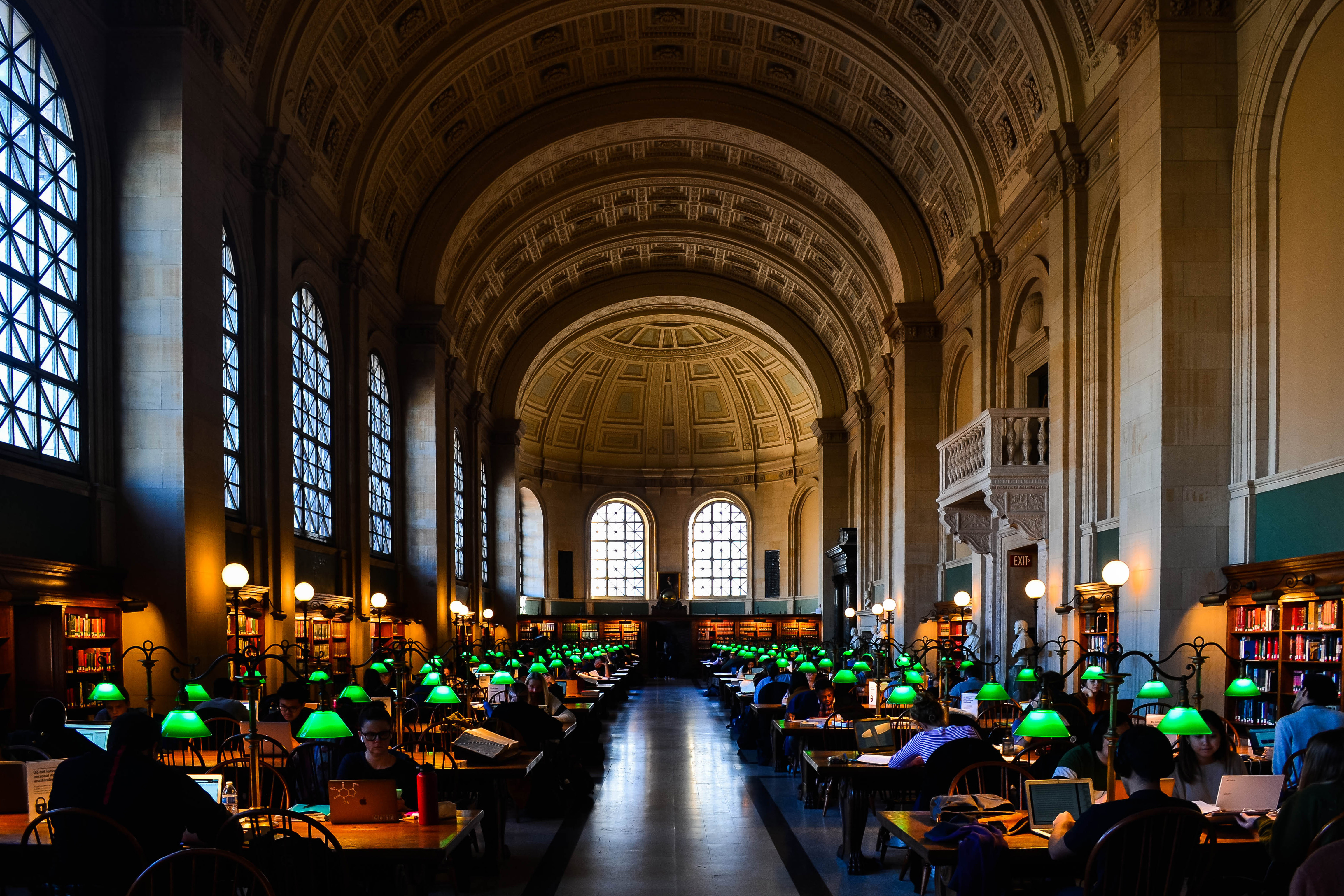 The Bates Hall is the main reading room of the Boston Public Library, and is situated in the library's McKim Building. Named for the library's first great benefactor, Joshua Bates, the hall has vaulted high ceilings and half domes, walls lined with English oak bookcases, and busts of eminent authors and Bostonians.